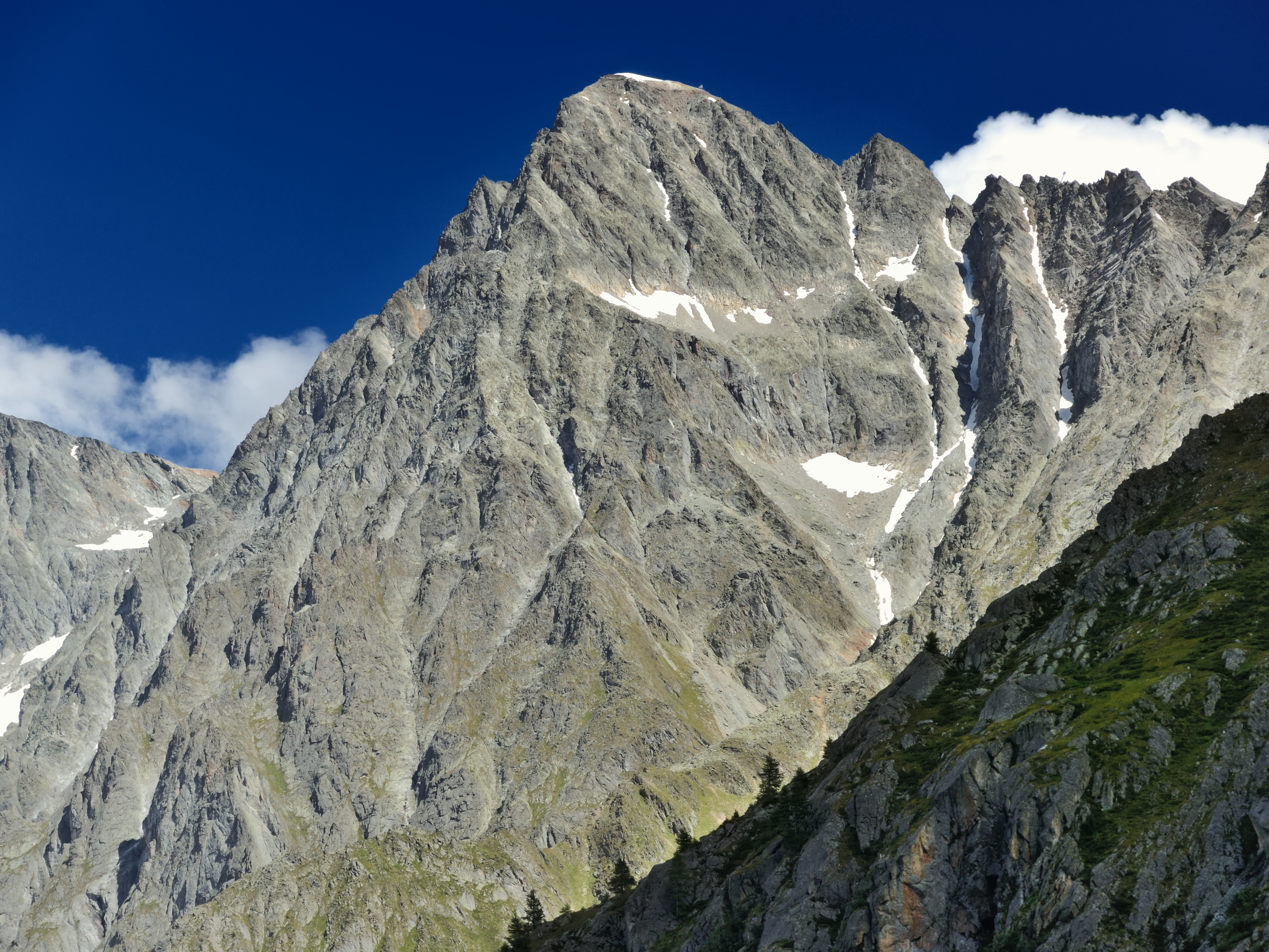 Sackhorn from above Gfelalp